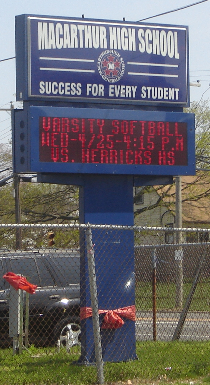 MacArthur HS Sign on the intersection of Wantagh Ave. and Old Jerusalem Road.